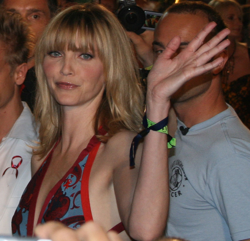 German model Nadja Auermann on the red carpet at the Life Ball 2007 at the Rathausplatz in Vienna, Austria.